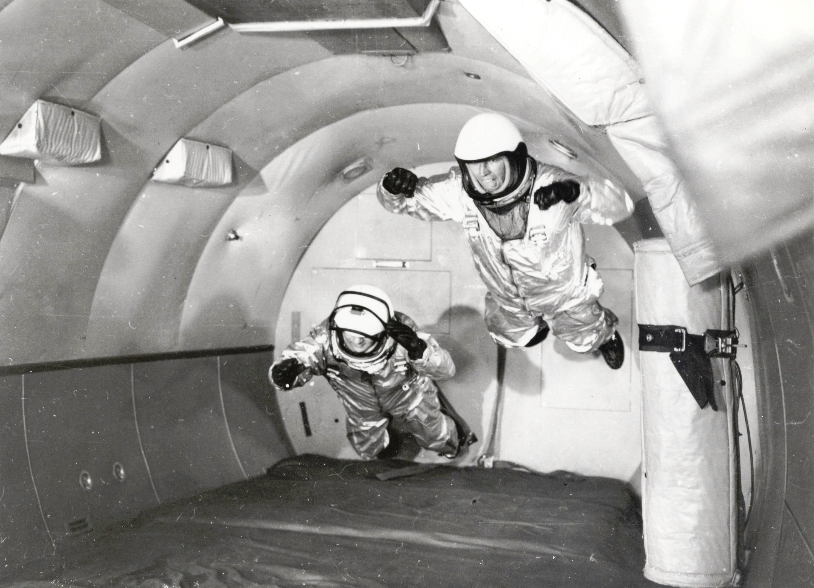 Astronauts in simulated weightless flight in C-131 aircraft flying "zero-g" trajectory at Wright Air Development Center. Weightless flights were a new form of training for the Mercury astronauts and parabolic flights that briefly go beyond the Earth's tug of gravity continue to be used for spaceflight training purposes. These flights are nicknamed the "vomit comet" because of the nausea that is often induced.